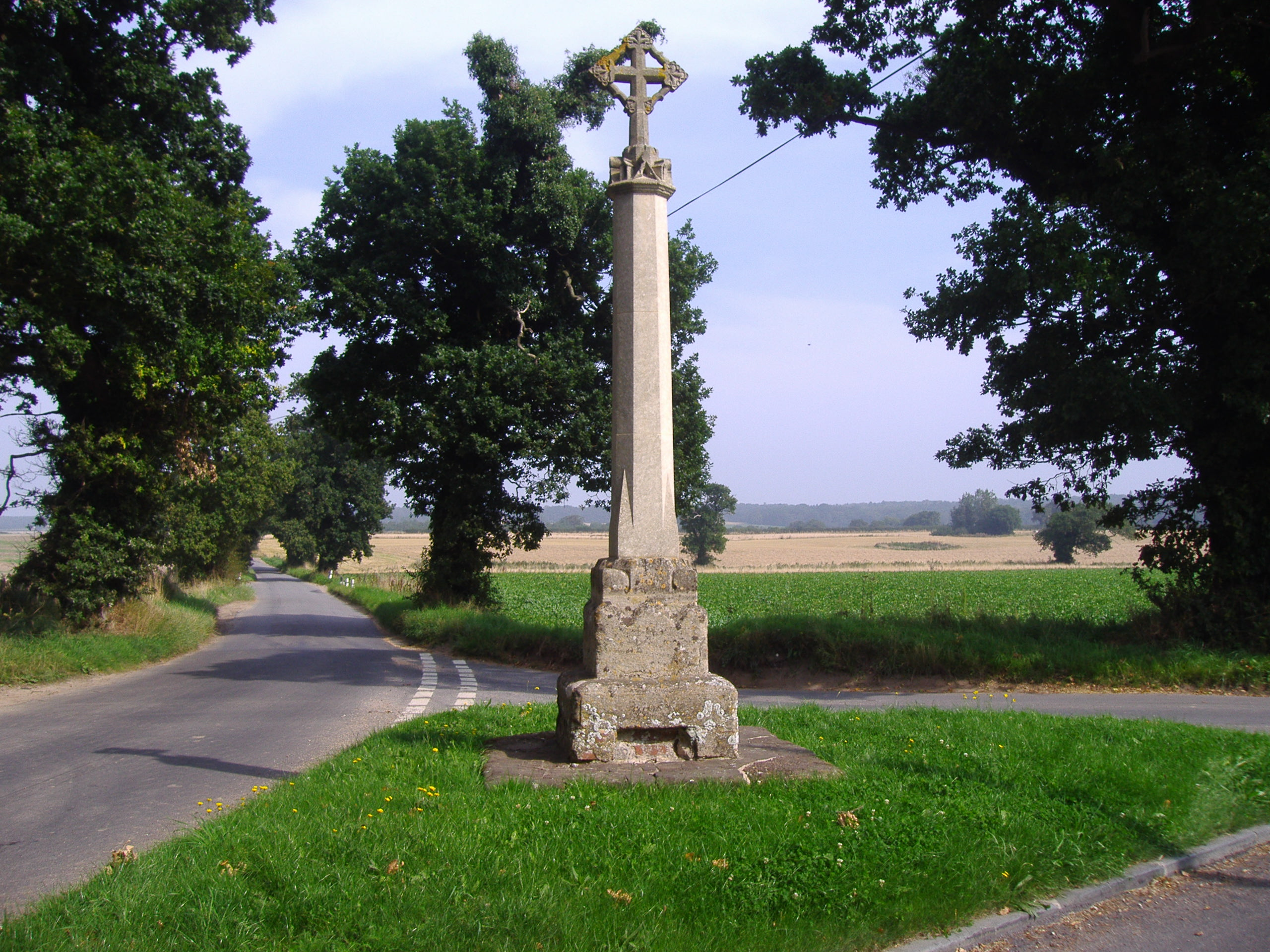 The Stone cross south of the village of Aylmerton in the english county of Norfolk